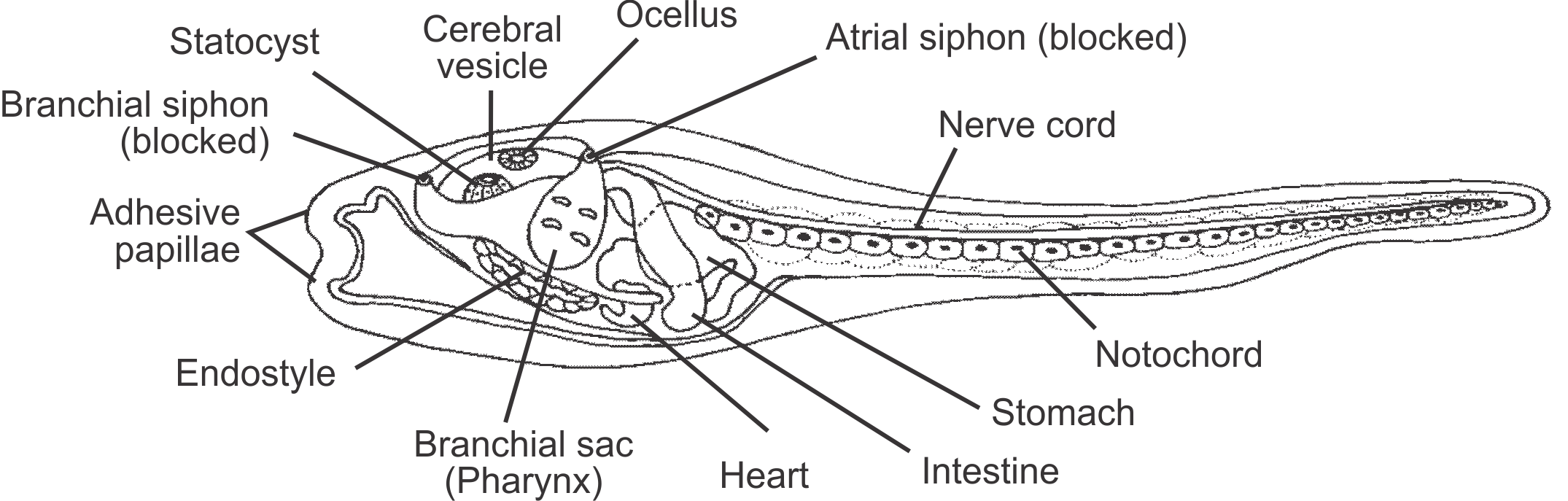 Anatomy of a larval tunicate (Urochordata)